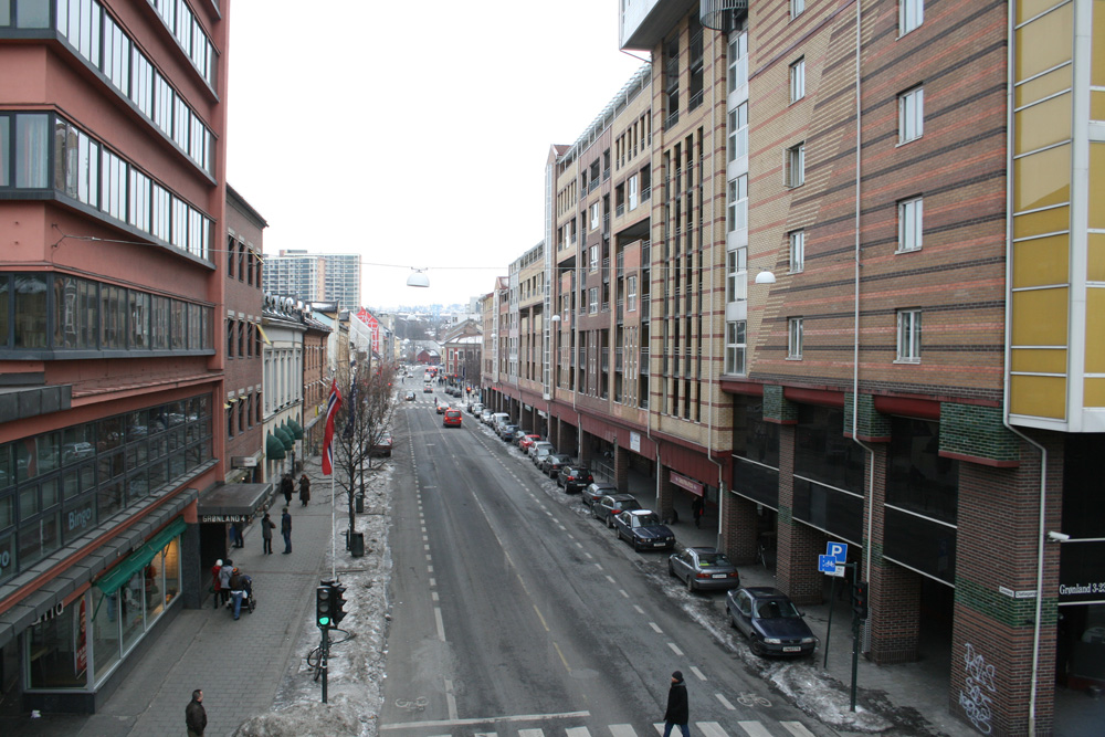 The street Grønland in downtown Oslo Norsk (bokmål): Gata Grønland i Oslo, sett fra Nylandsveien